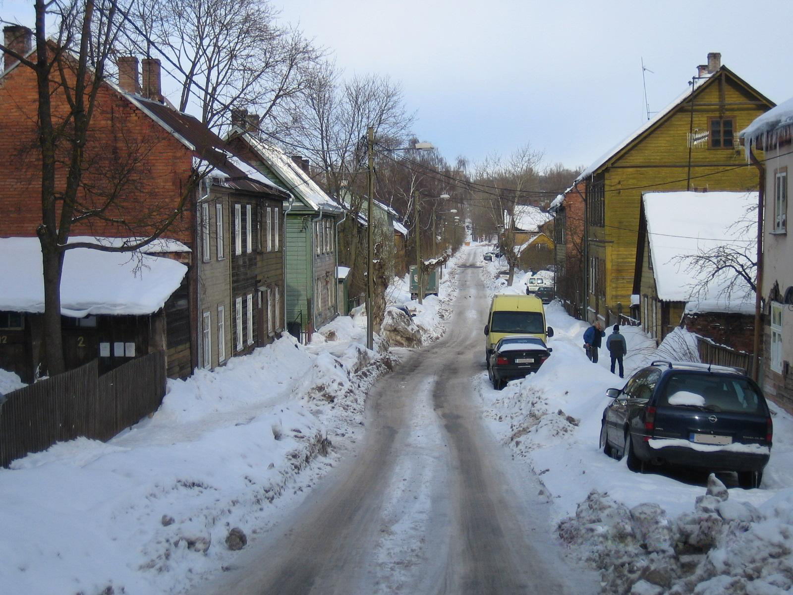 Tartu, Supilinn Quarter, Marja Str in early spring